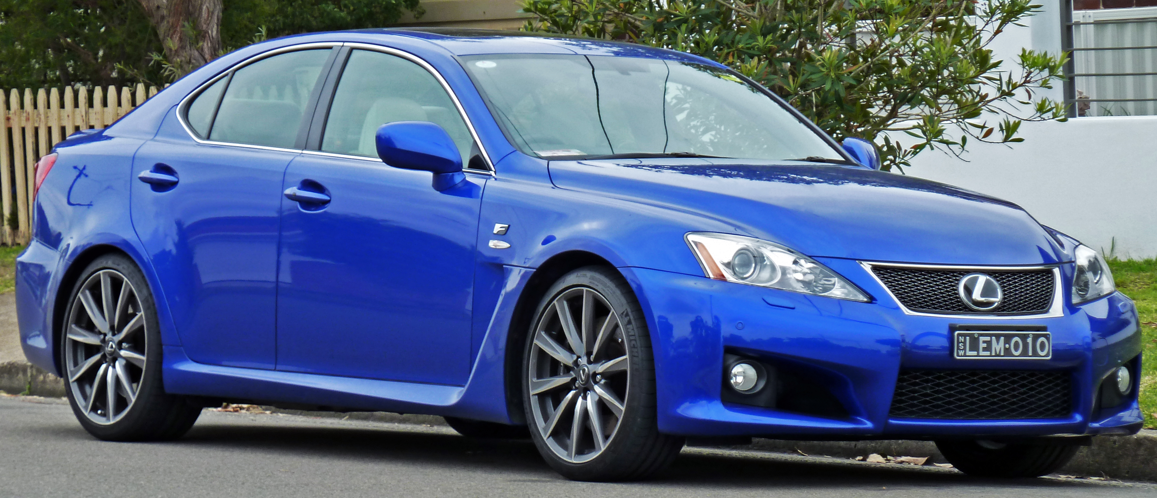 2008–2010 Lexus IS F (USE20R) Sports Luxury sedan. Photographed in Sans Souci, New South Wales, Australia.